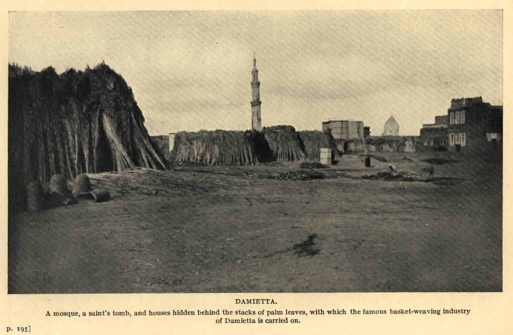 The City of Damietta on the Nile